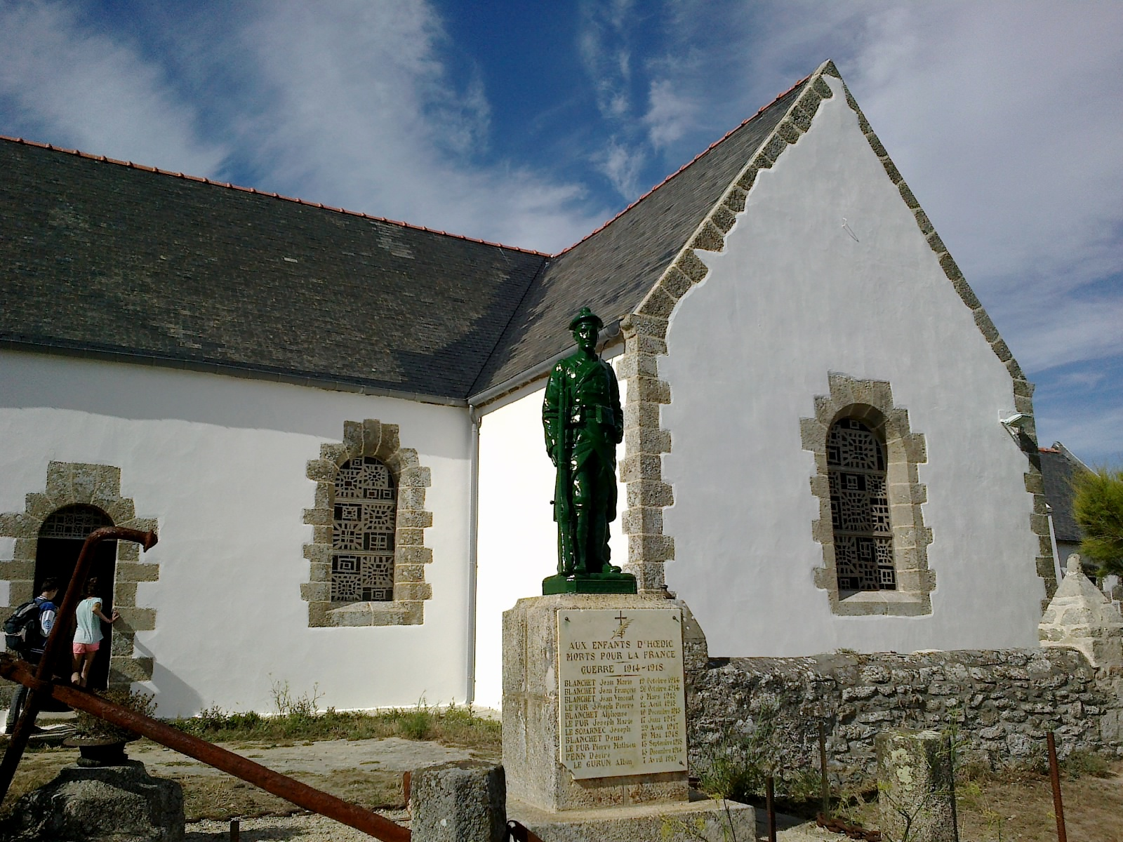 Hoedic Eglise Notre-Dame La Blanche Monument Morts